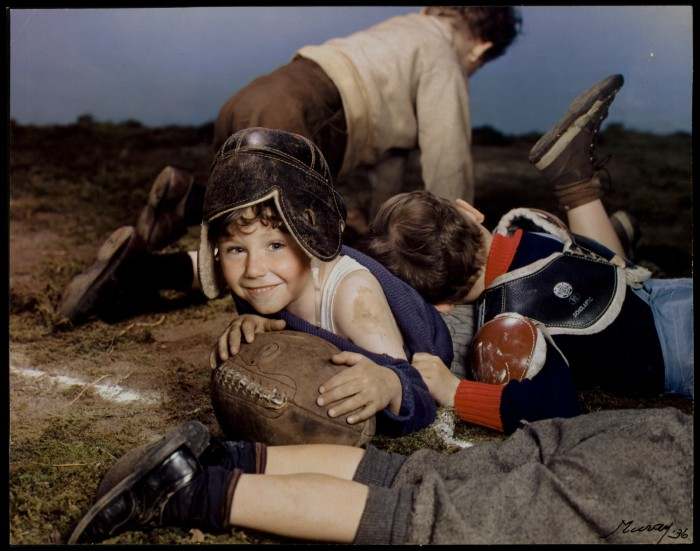 Accession Number: 1971:0056:0027 Maker: Nickolas Muray (American 1892-1965) Title: Cream of Wheat, Boys_playing_football Date: 1936 Medium: color print, assembly (Carbro) process Dimensions: 22.9 x 19.4 cm. George Eastman House Collection General – information about the George Eastman House Photography Collection is available at For information on obtaining reproductions go to